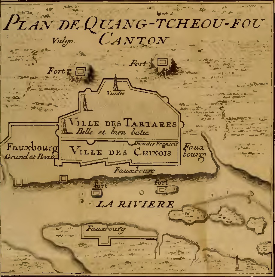 Map of Guangzhou from Description de la Chine, vol 1